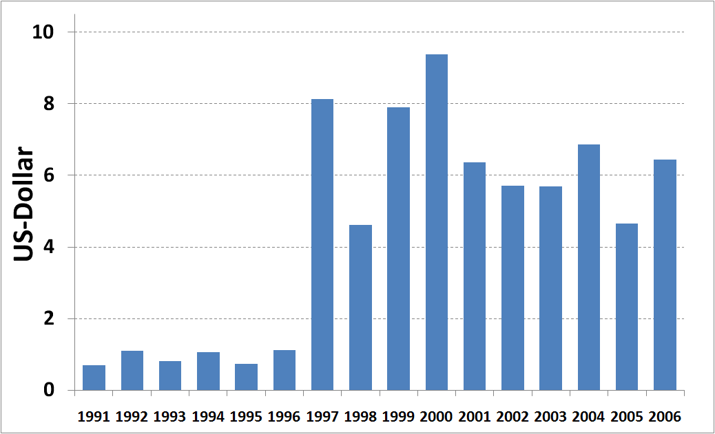 Annual Investment per capita in Nicaragua in water supply and sanitation (1991-2006)